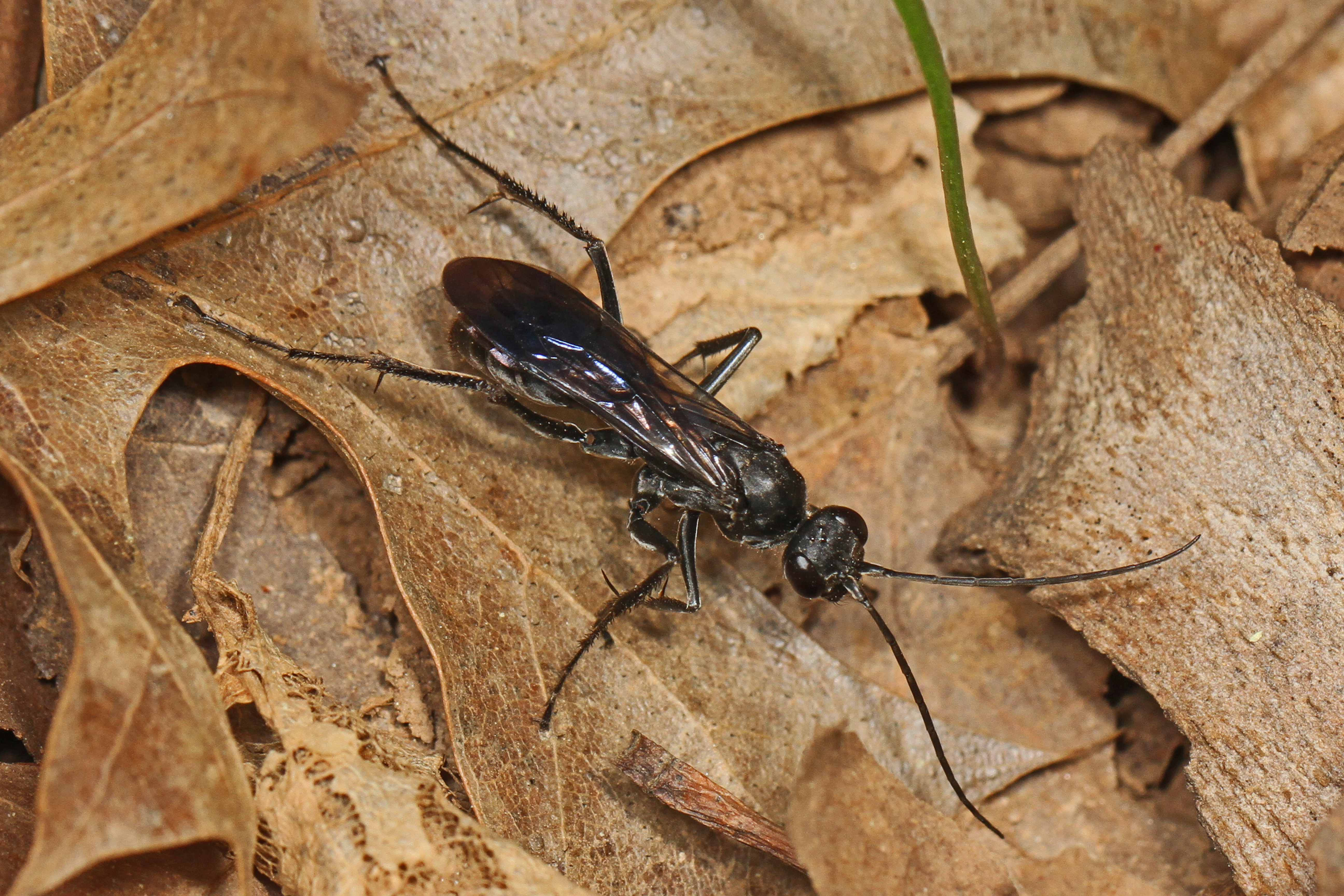 Spider Wasp - Priocnemis minorata, Merrimac Farm Wildlife Management Area, Aden, Virginia